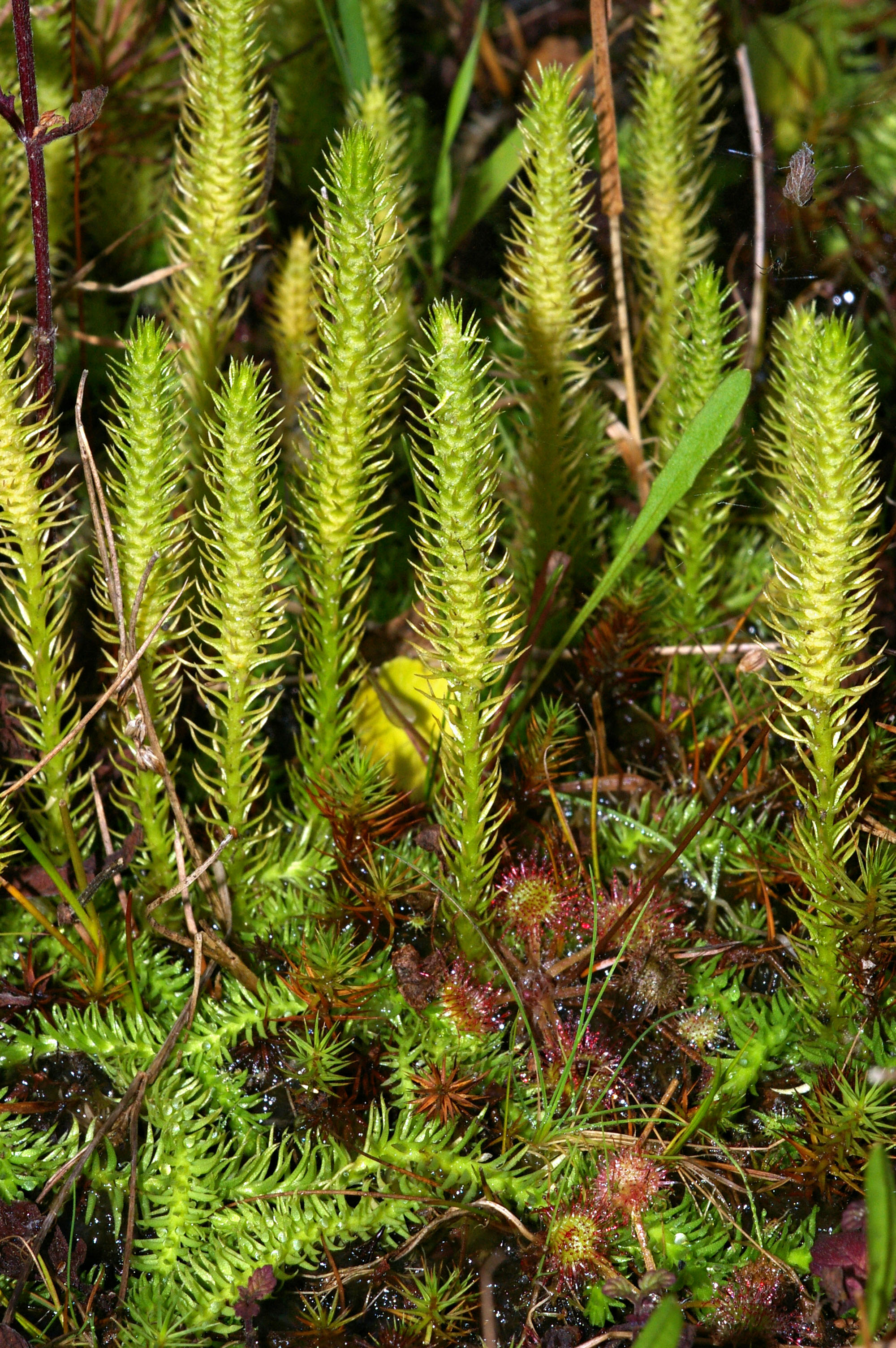 Marsh Clubmoss Lycopodiella inundata (Lycopodiaceae). In between some Drosera rotundifolia – both species often are associated.